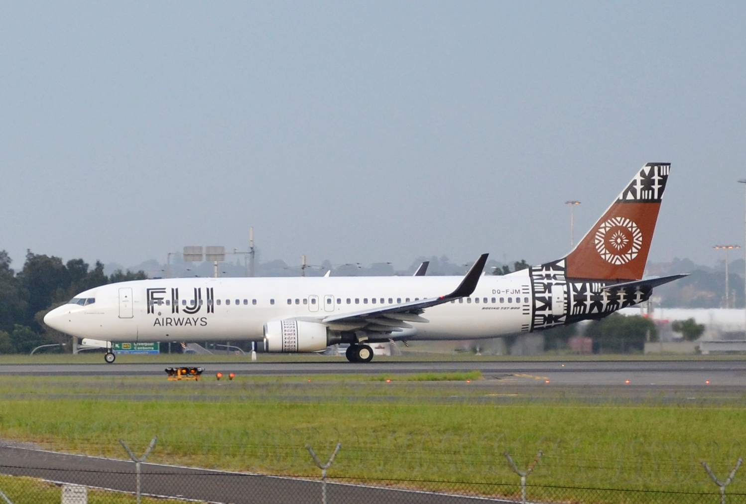 Fiji Airways 737 departing for Nadi